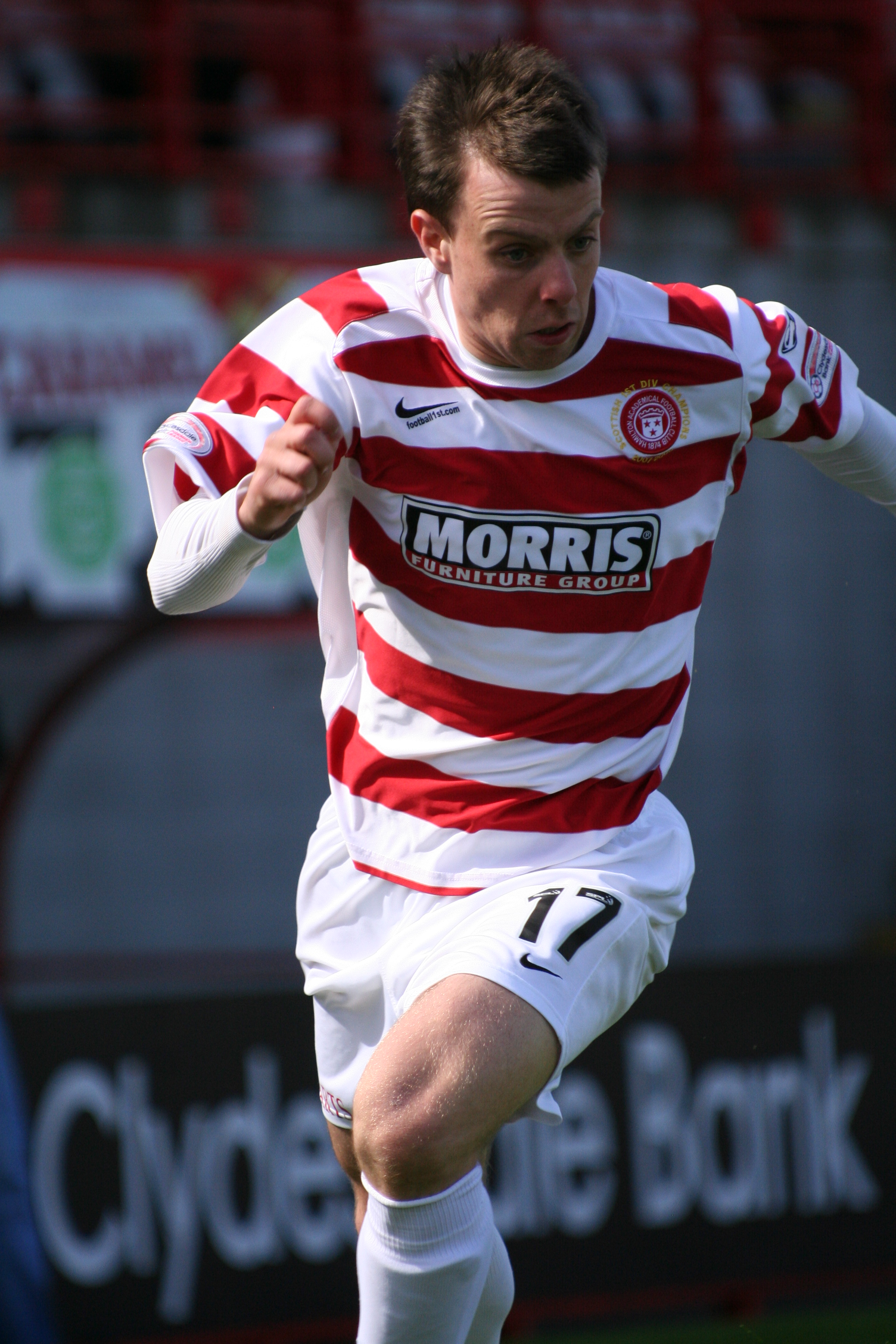 Paul McGowan playing for Hamilton Academical F.C. in a Scottish Premier League match